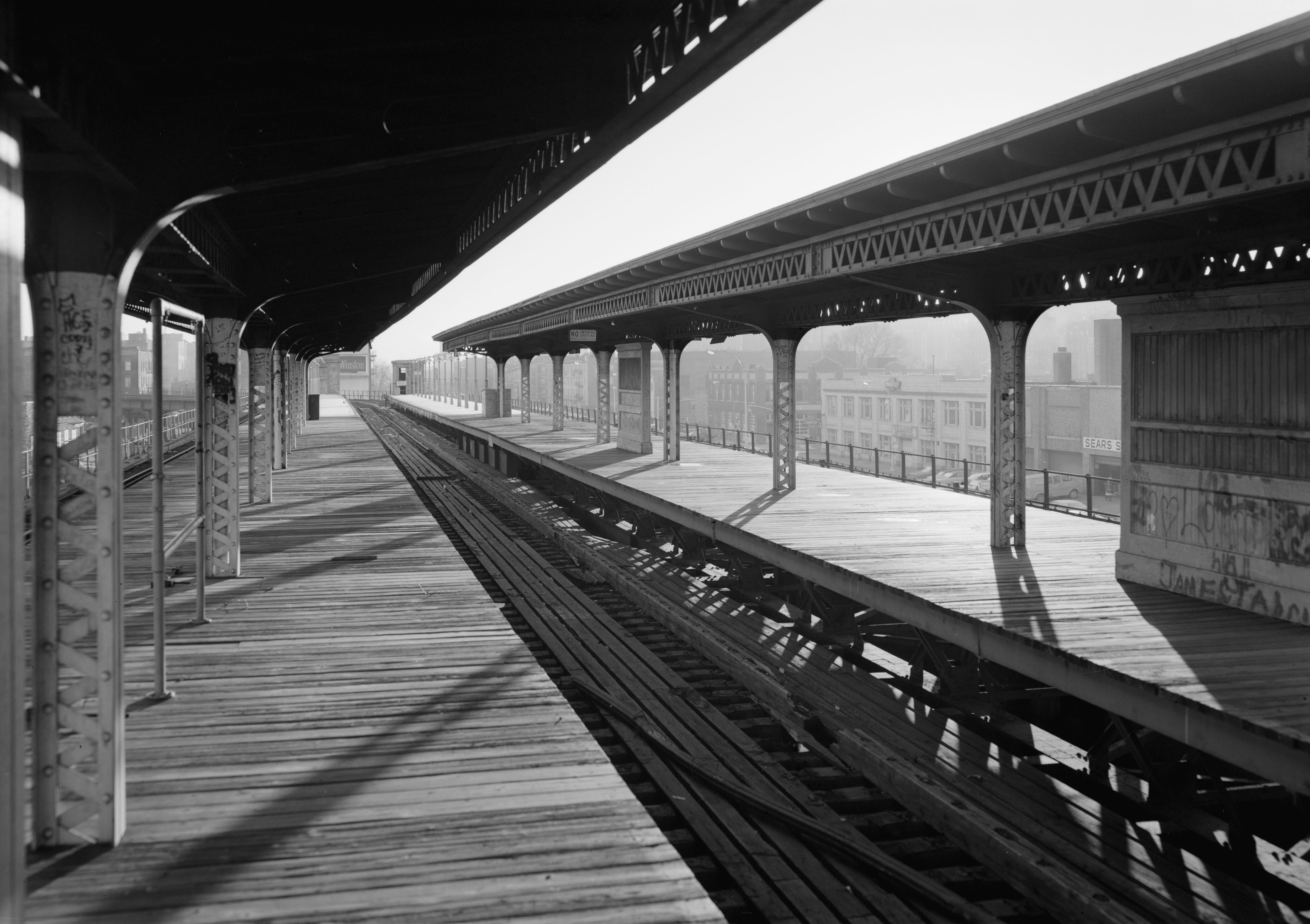 Fordham Road station on the IRT Third Avenue Line in 1974, just a few months after the line was closed down.This picture shows the typical track alignment of an express station on an elevated line. The width of the right-of-way limits the line to a single express track in the center, accessible by platforms on both sides.Express service on the line had ended in 1955, almost two decades before the photo was taken, hence the absence of a center track.